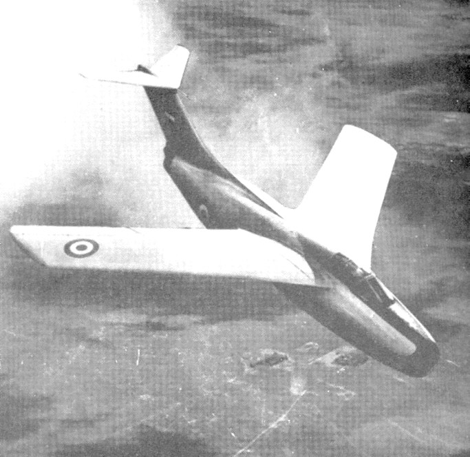 A prototype of the I.Ae. 33 Pulqui II jet fighter in flight over Argentina.